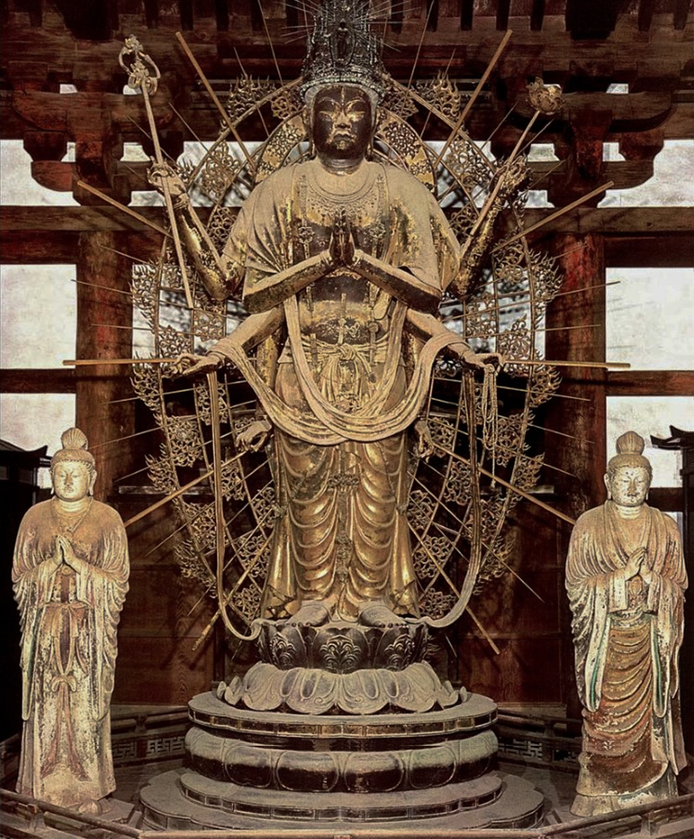 Fukūken-saku Kannon, golden hollow lake, H 3.64 m, and two devas, raw clay. Late 8th century Hokke-dō, Todai-ji. The Bodhisattva Fukuken-saku (or -jaku), a form of Avalokiteśvara venerated since the 6th century in Japan, corresponds to the Indian Amoghapasha Lokeshvara. Described in a text of 709, it comes in various forms, the most common to four arms. With his characteristic attribute, the noose, he implements his vow to save all beings. By his side, Bon-ten (Brahman) and Taishaku-ten (the emperor of heaven), two of the twelve devas.